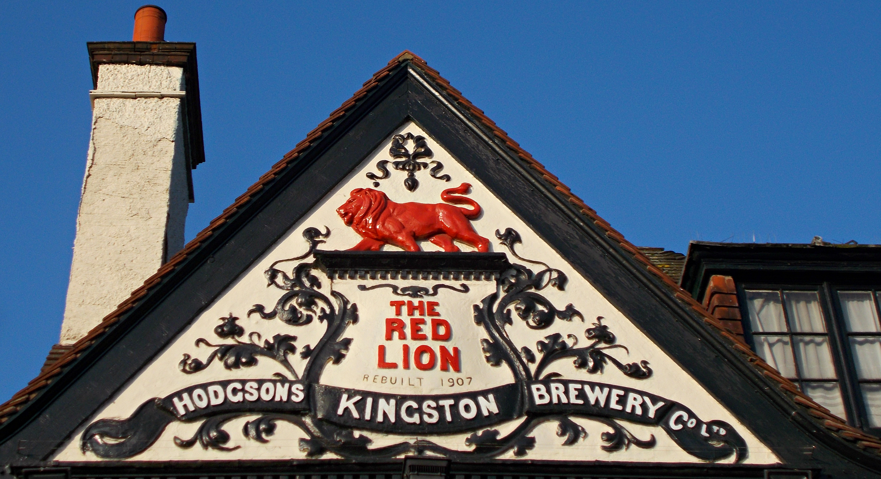 Sutton is a town within Greater London ten miles from the centre of the city.